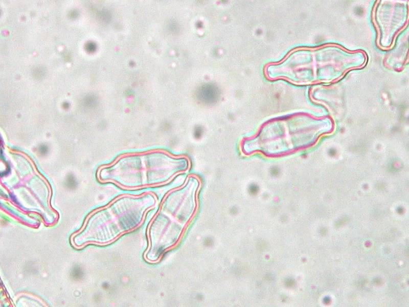 This work is free and may be used by anyone for any purpose. If you wish to use this content, you do not need to request permission as long as you follow any licensing requirements mentioned on this page.